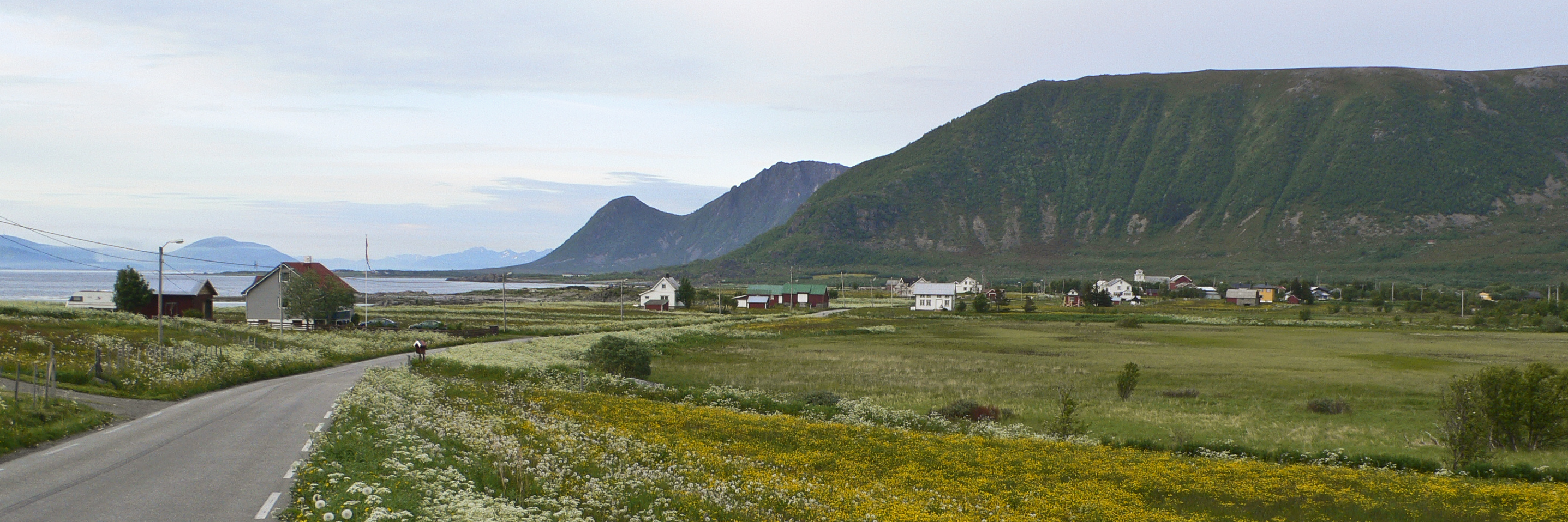 landscape near Svolvær